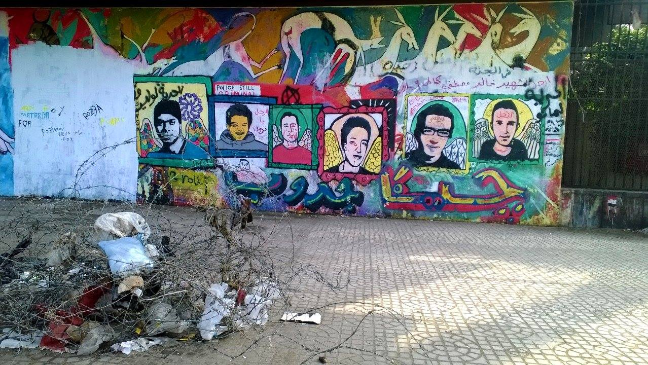 Graffiti depicting martyrs of the popular uprising on a wall next to the American University buildings in Tahrir Square, Cairo.